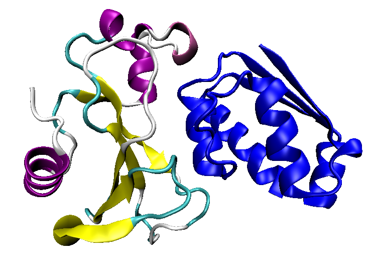 The tightly bound complex between the Bacillus amyloliquefaciens proteins barnase and barstar (PDB ID 1BRS). The protein ribonuclease protein barnase is colored by secondary structure and its inhibitor barstar is colored in blue.